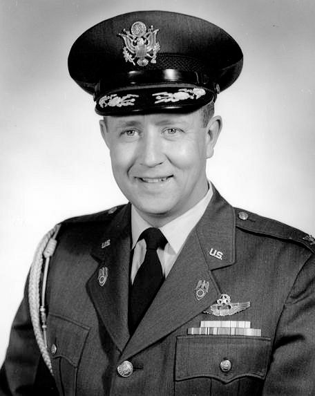 Col. William G. Draper (June 28, 1920 – November 26, 1964) was the pilot of Eisenhower's Presidential plane "Columbine," the predecessorpr of what we now call "Air Force One."